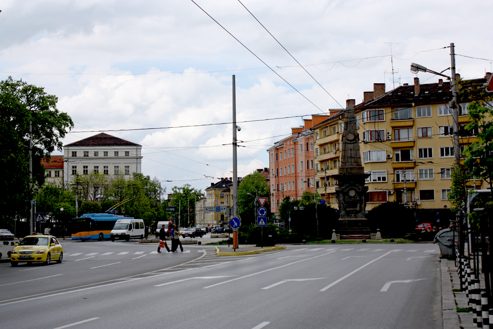 Vasil Levski Boulevard with Monument to Vasil Levski, Sofia, Bulgaria